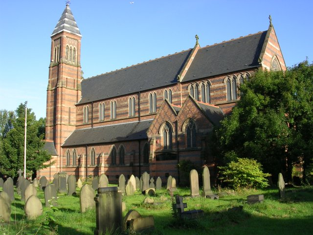 St Cross, Clayton. Another view of St Cross Parish Church, Clayton. SJ88069848.